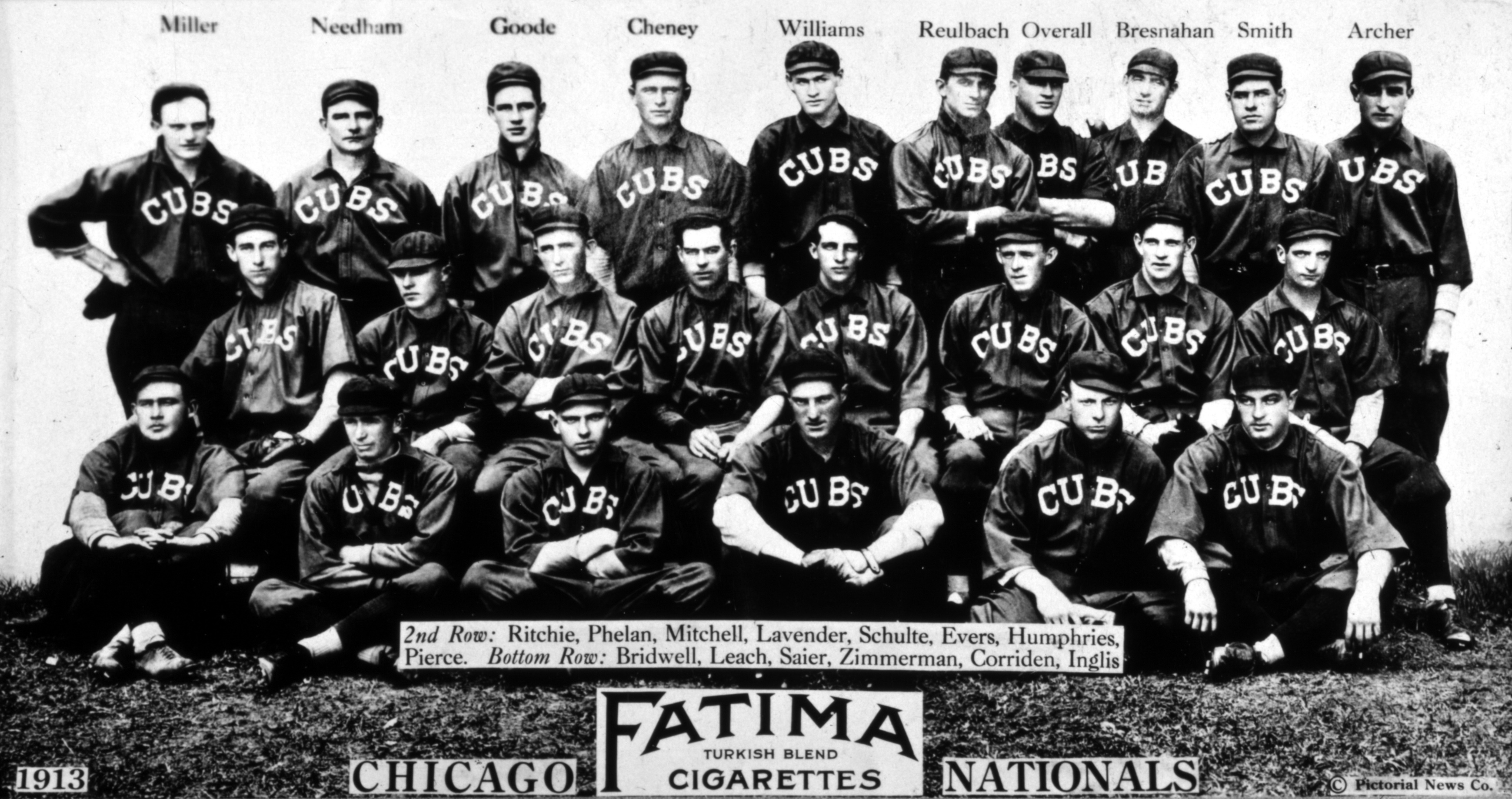 1913 Chicago Cubs, baseball card portrait